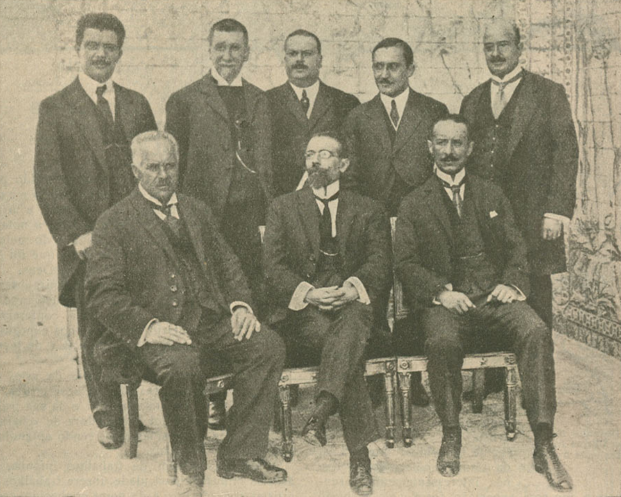 The Portuguese cabinet (1920), led by António Maria da Silva. Standing (from left to right): Francisco Correia, Fernando Brederode, Vasco de Vasconcelos, José Domingues dos Santos, Costa Júnior. Sitting: Pedroso de Lima, António Maria da Silva, Oliveira e Castro.